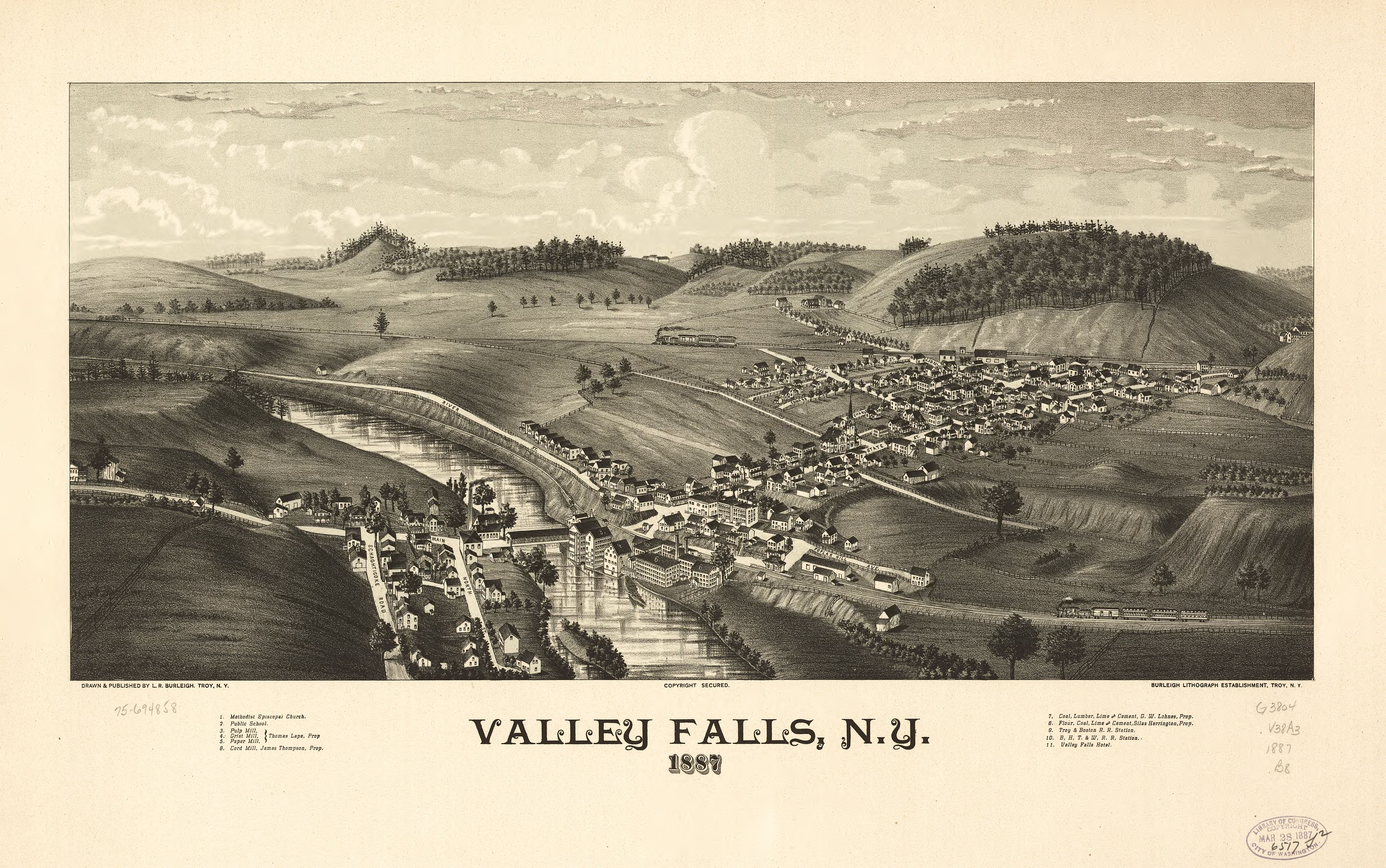 Perspective map not drawn to scale. Bird's-eye-view. LC Panoramic maps (2nd ed.), 644 Available also through the Library of Congress Web site as a raster image. Indexed for points of interest. AACR2